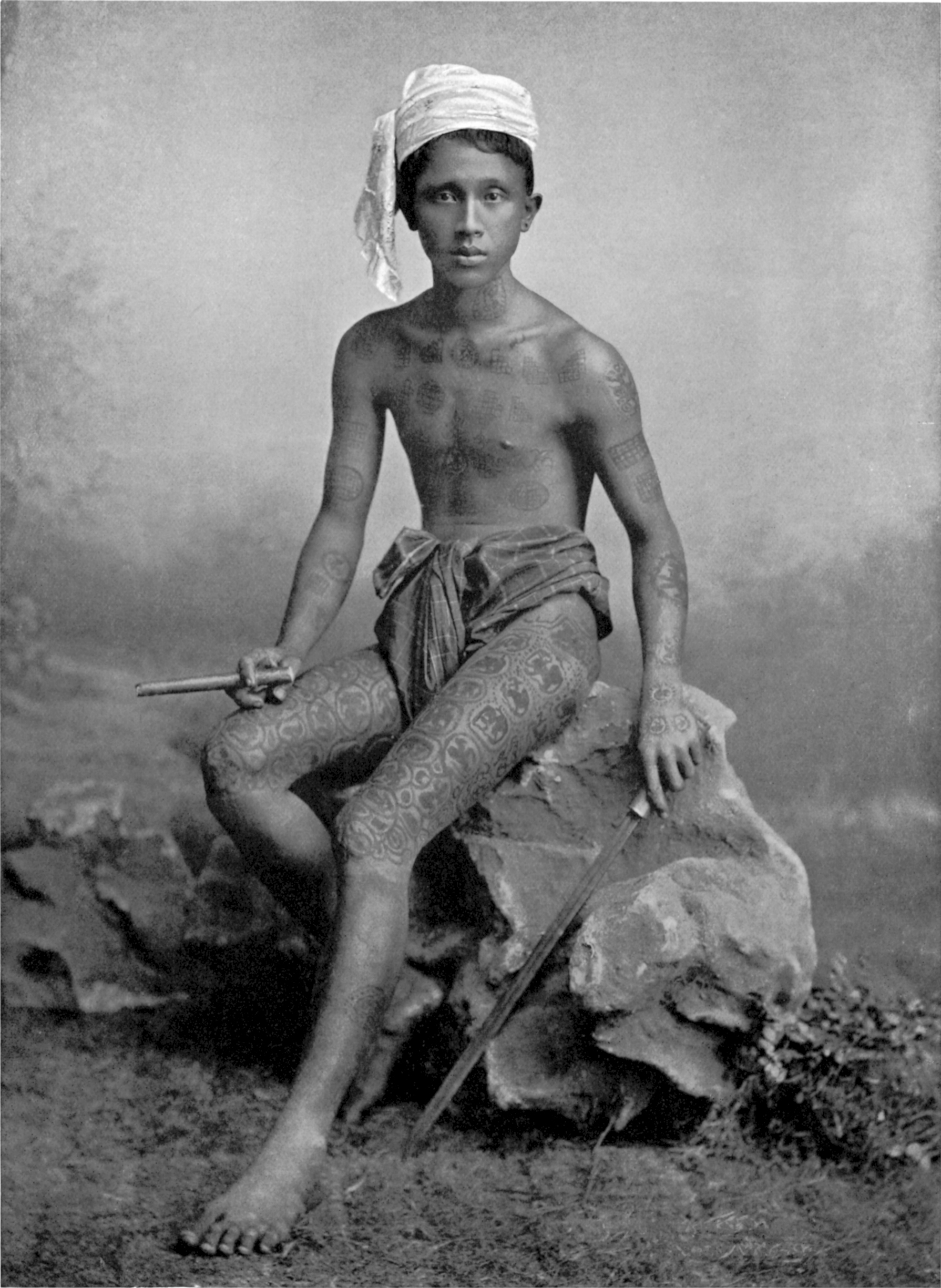 Burmese tattooingEvery Burman who has any self-respect is tattooed in blue from the waist, about the top of the cloth to the knee. The figures of tigers, ogres and so forth are encircled with scroll lettering. The tattooing on the body and arms is in red, and is intended to secure immunity from sword or gun-shot wounds, or success in love.